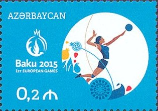 Baku 2015. First European Games.(2nd edition) N 1219 - 20 qapik – Volleyball